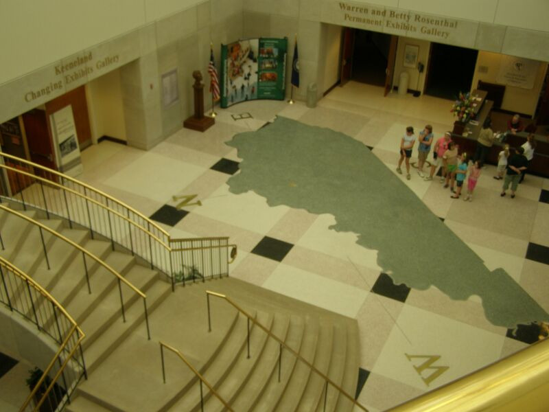 Lobby of the Clark Center for Kentucky History